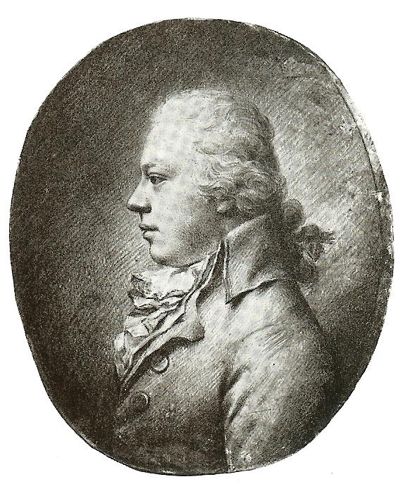 Portrait of Bernhard Heinrich von der Hude (1768–1828)